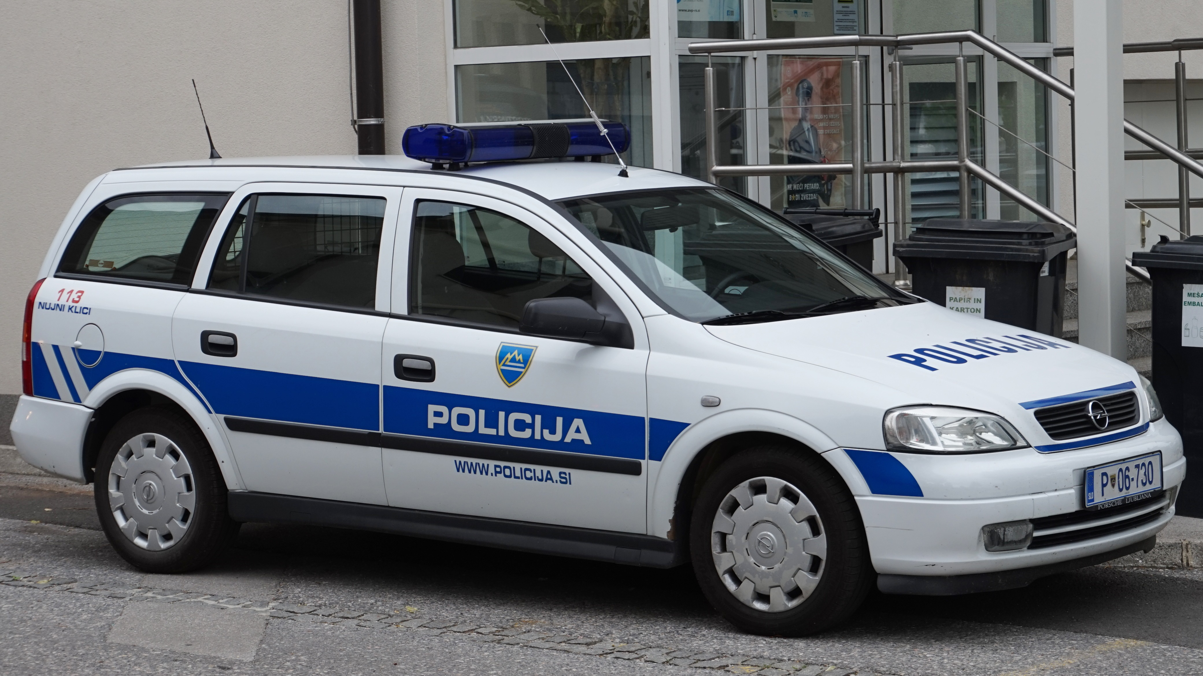 Slovene police car, Opel Astra G